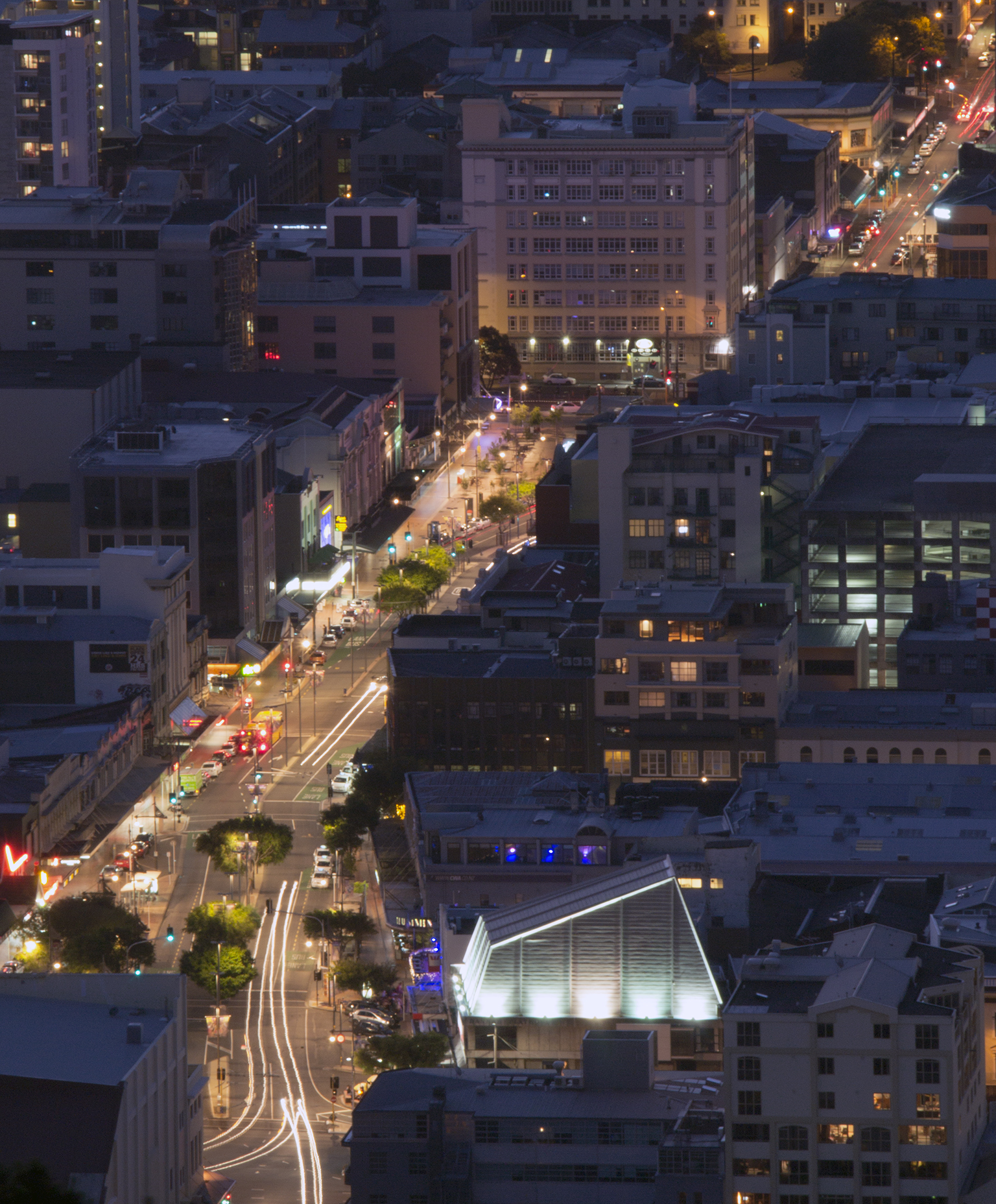 View of Courtenay Place, Wellington at night, from Mt. Victoria summit